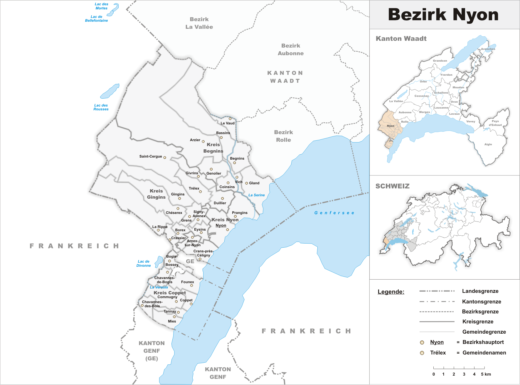 Municipalities in the district of Nyon